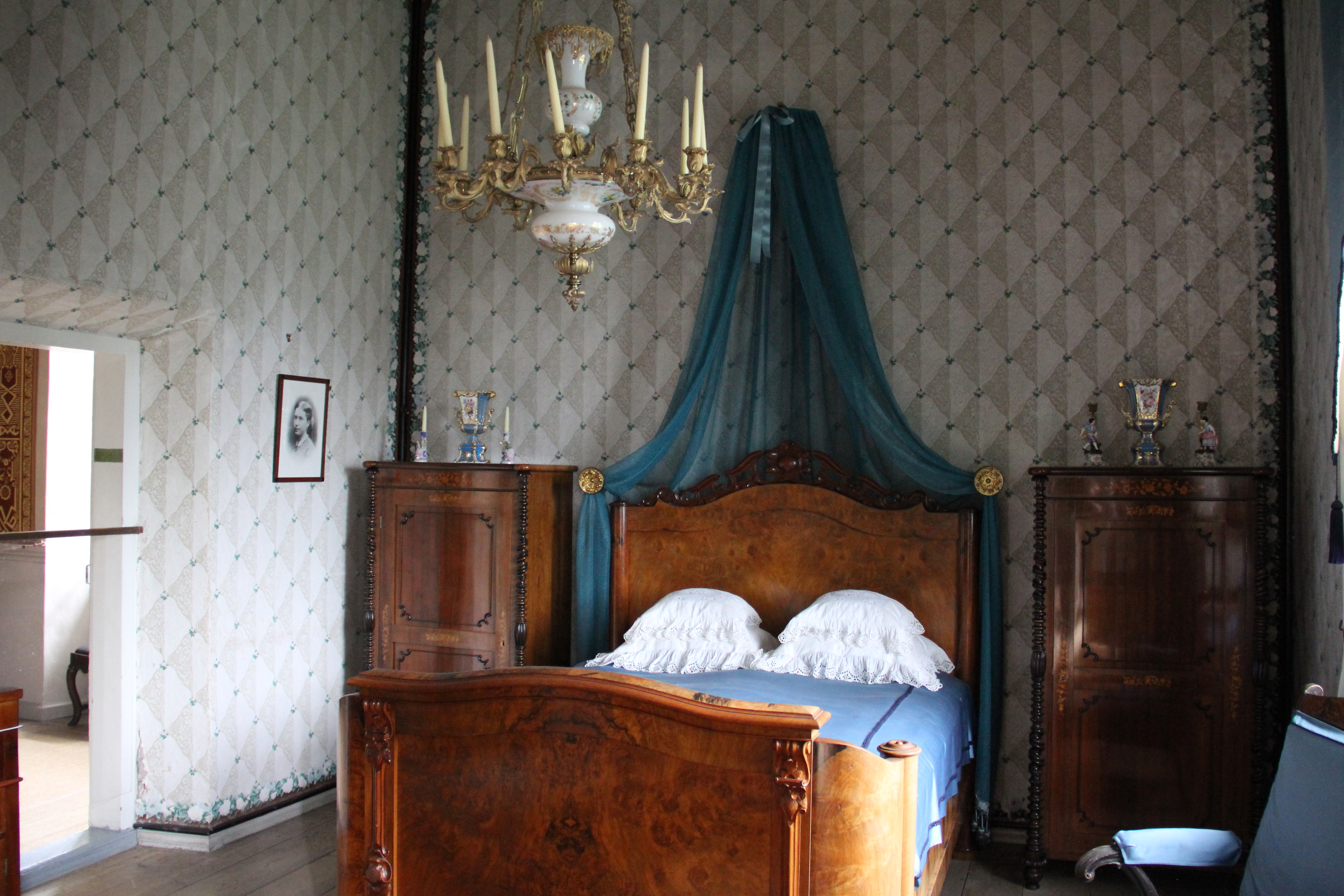 Louhisaari manor, Askainen, Masku, Finland. - Little blue bedroom, decorated in 1860s style with Mannerheim family furniture.